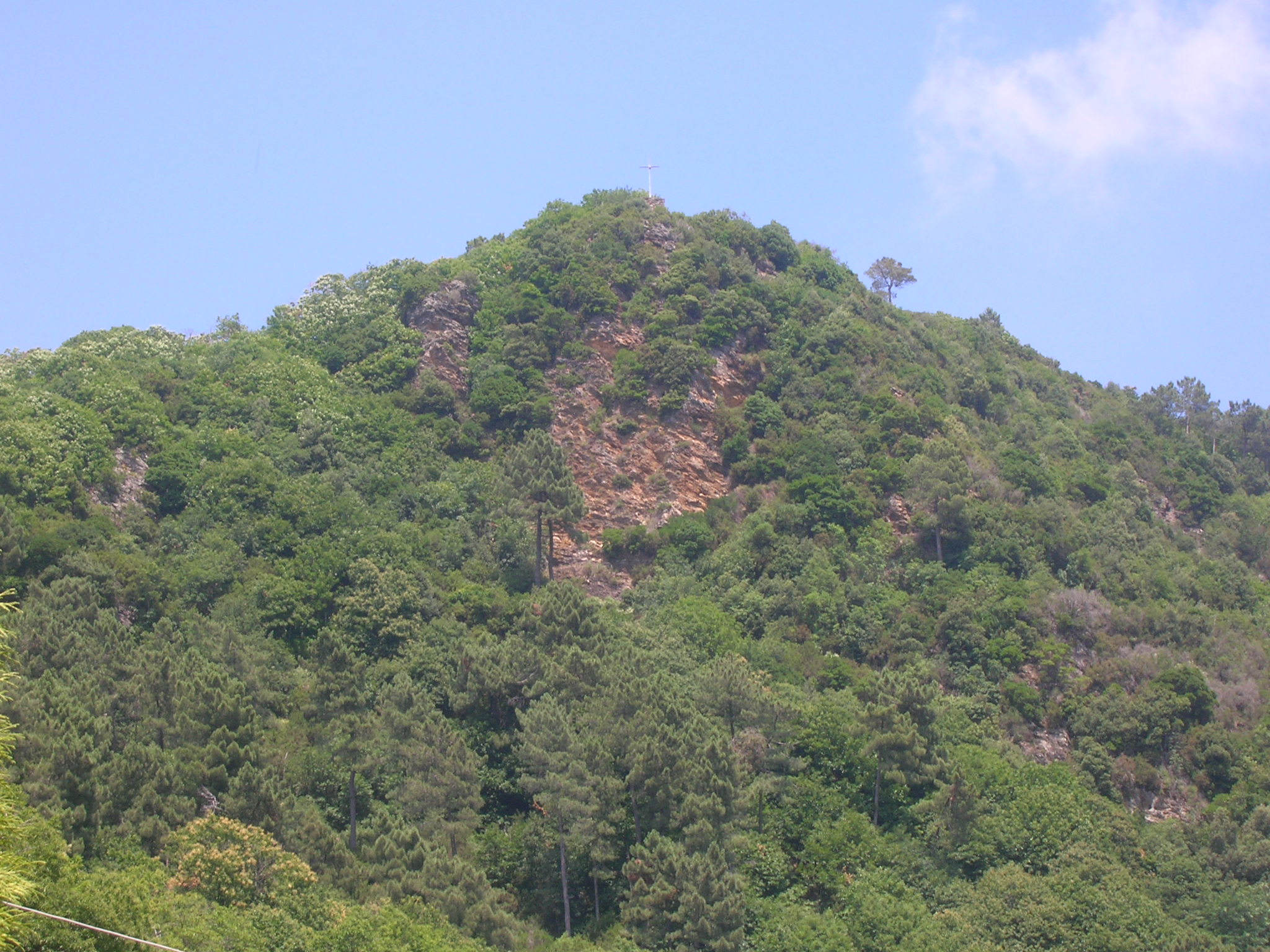 This is a mount viewed from Retignano, Italy